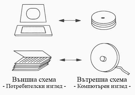 Traditional view of data